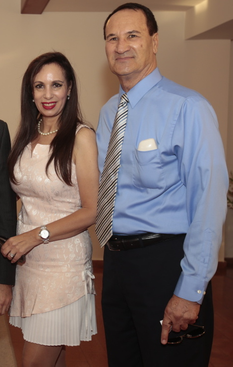 July 4th 2015